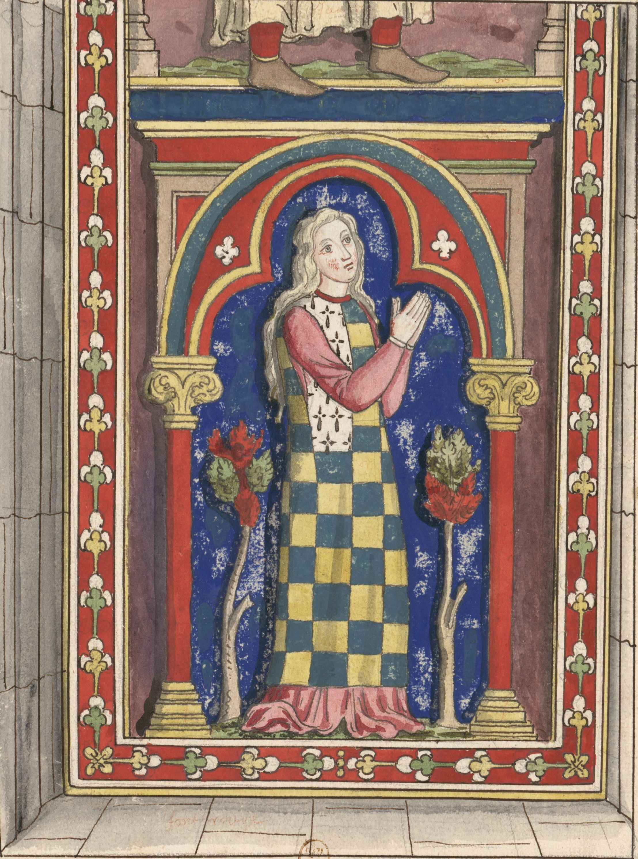 Yolande de Brittany (reference 141)